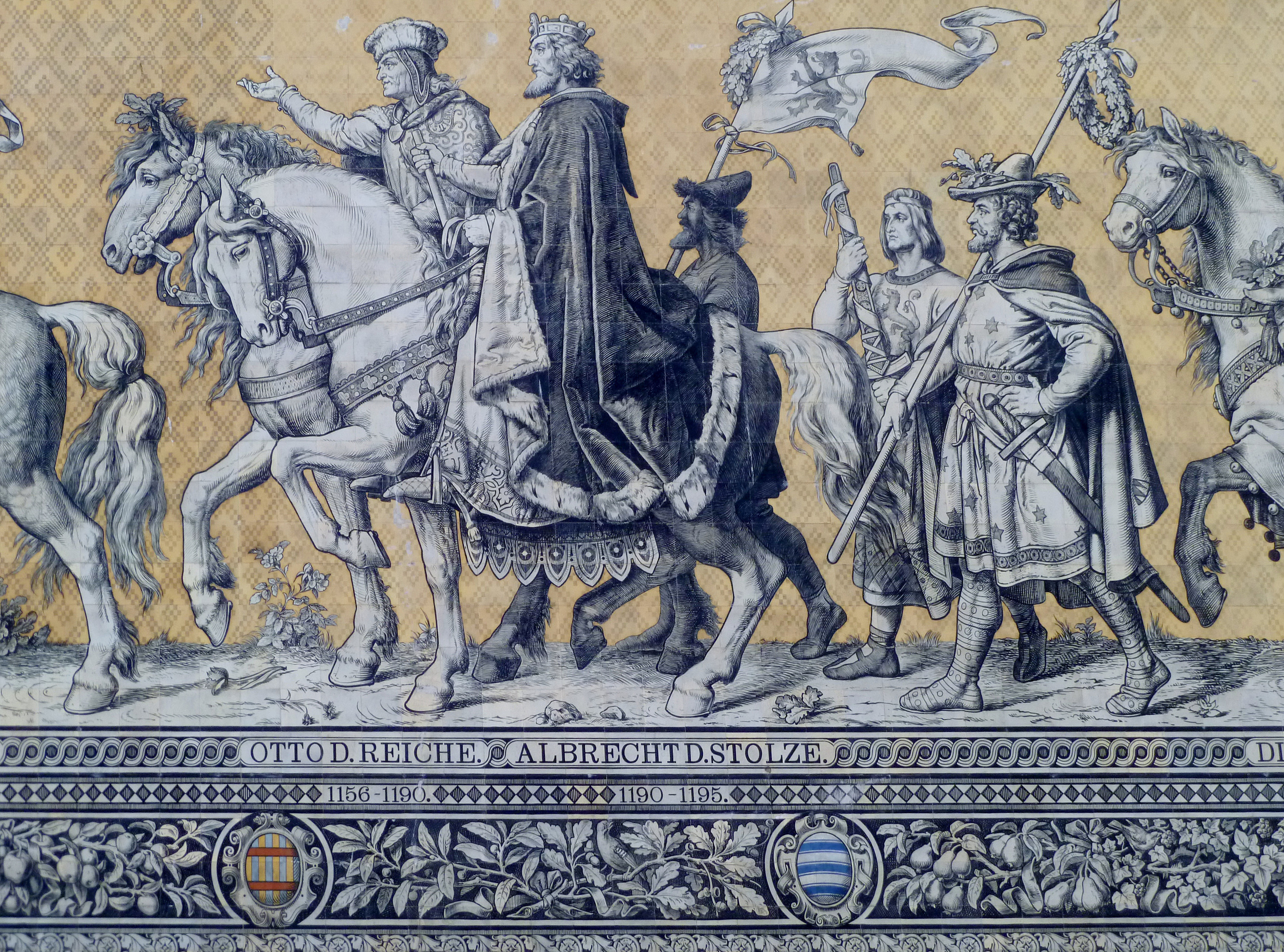 Otto II, Margrave of Meissen (1156–1190) and Albert, Margrave of Meissen (1190–1195); Fürstenzug, Dresden, Germany